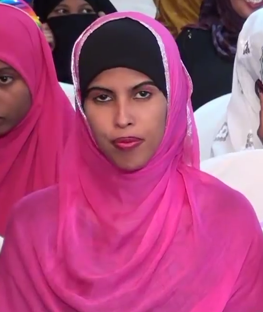 A young Somali woman at a 2013 Somali music event.